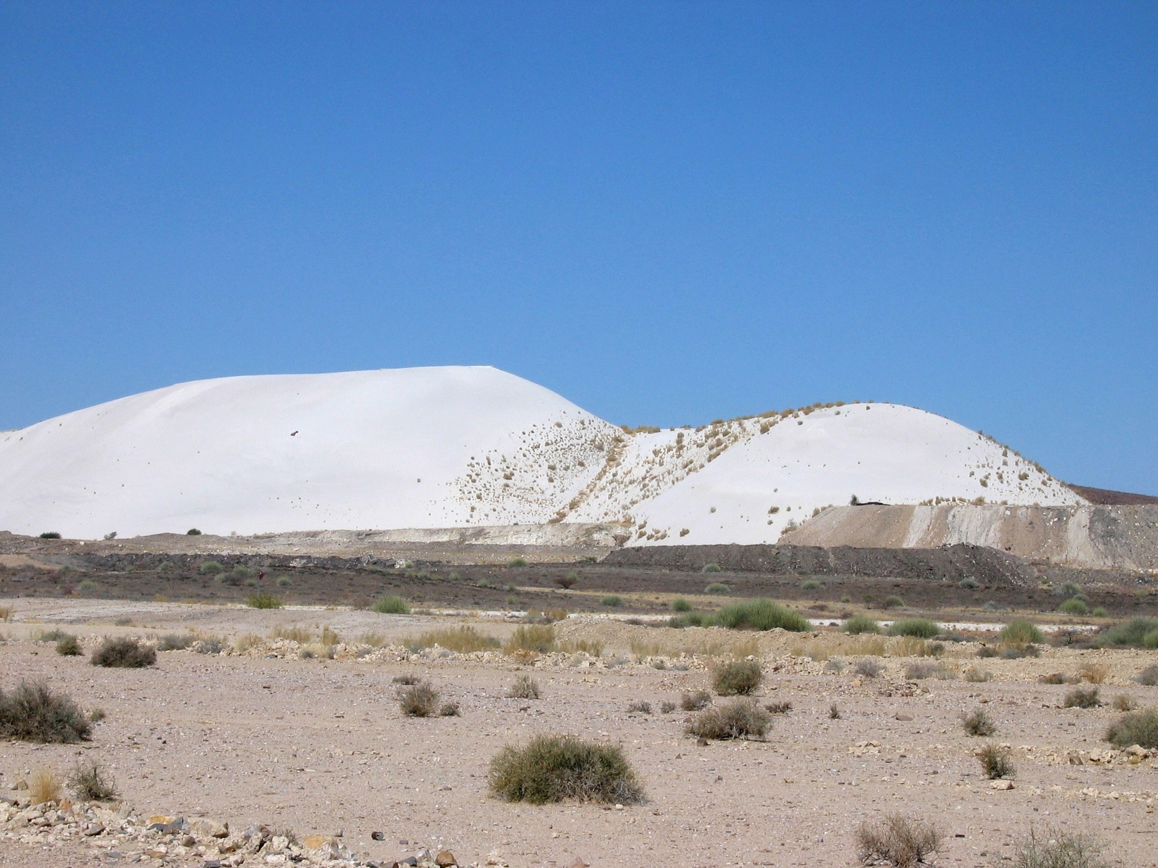 Mine spoils, Uis, Namiba